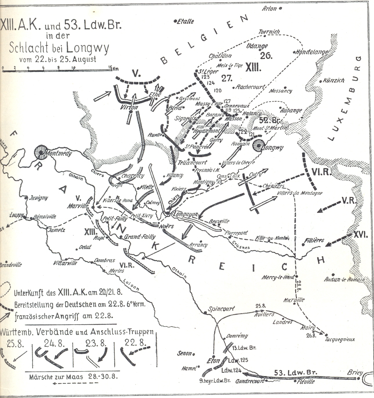 Karte Seite 21: XIII. Armee-Korps in der Schlacht bei Longwy 1914